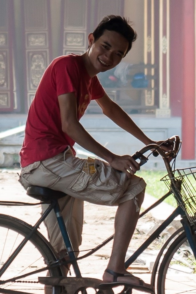 A young Vietnamese man wearing khaki cargo shorts and a red T-shirt on a bicycle.